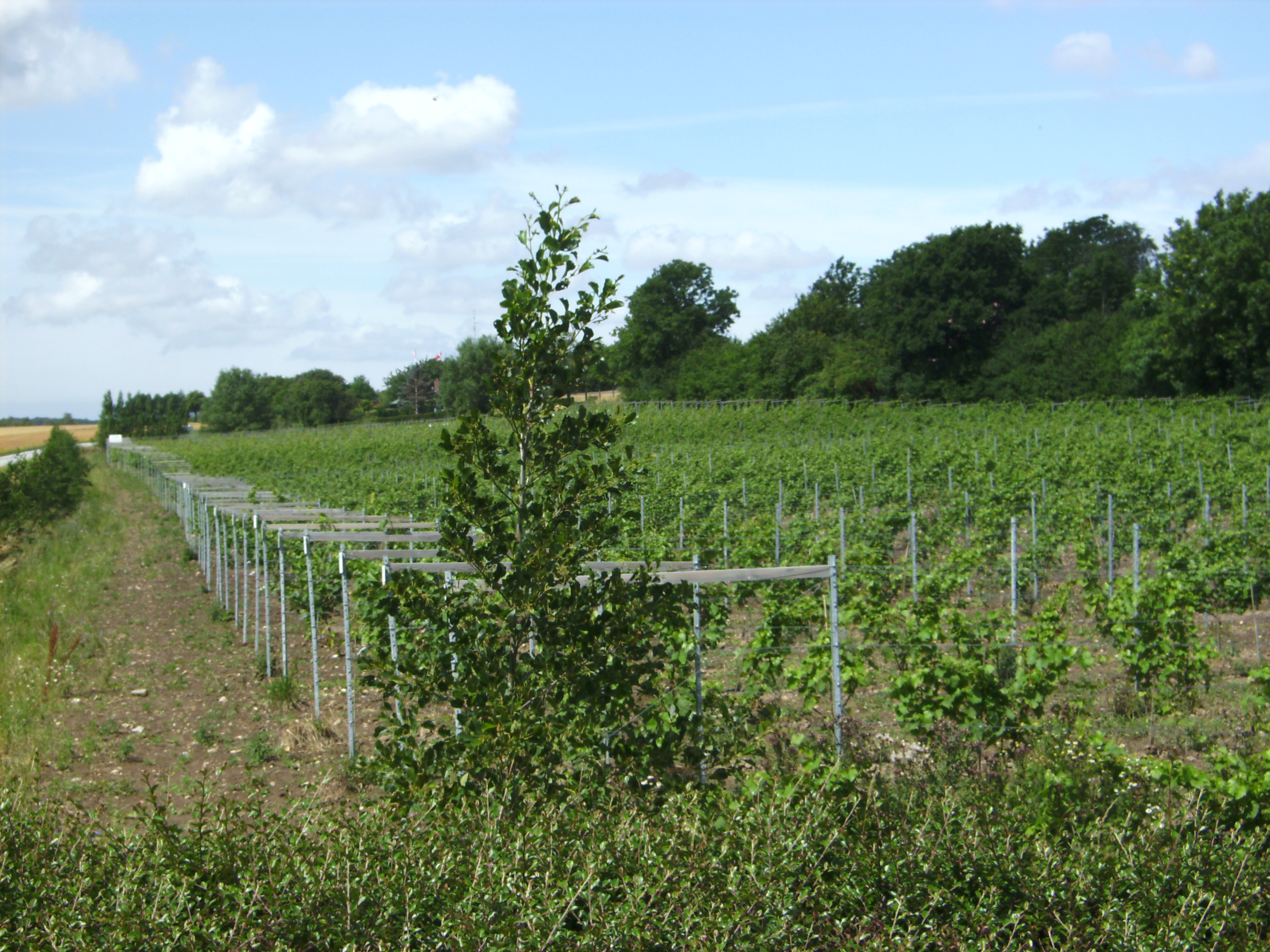 Vineyard in Sløsse, Lolland, Denmark